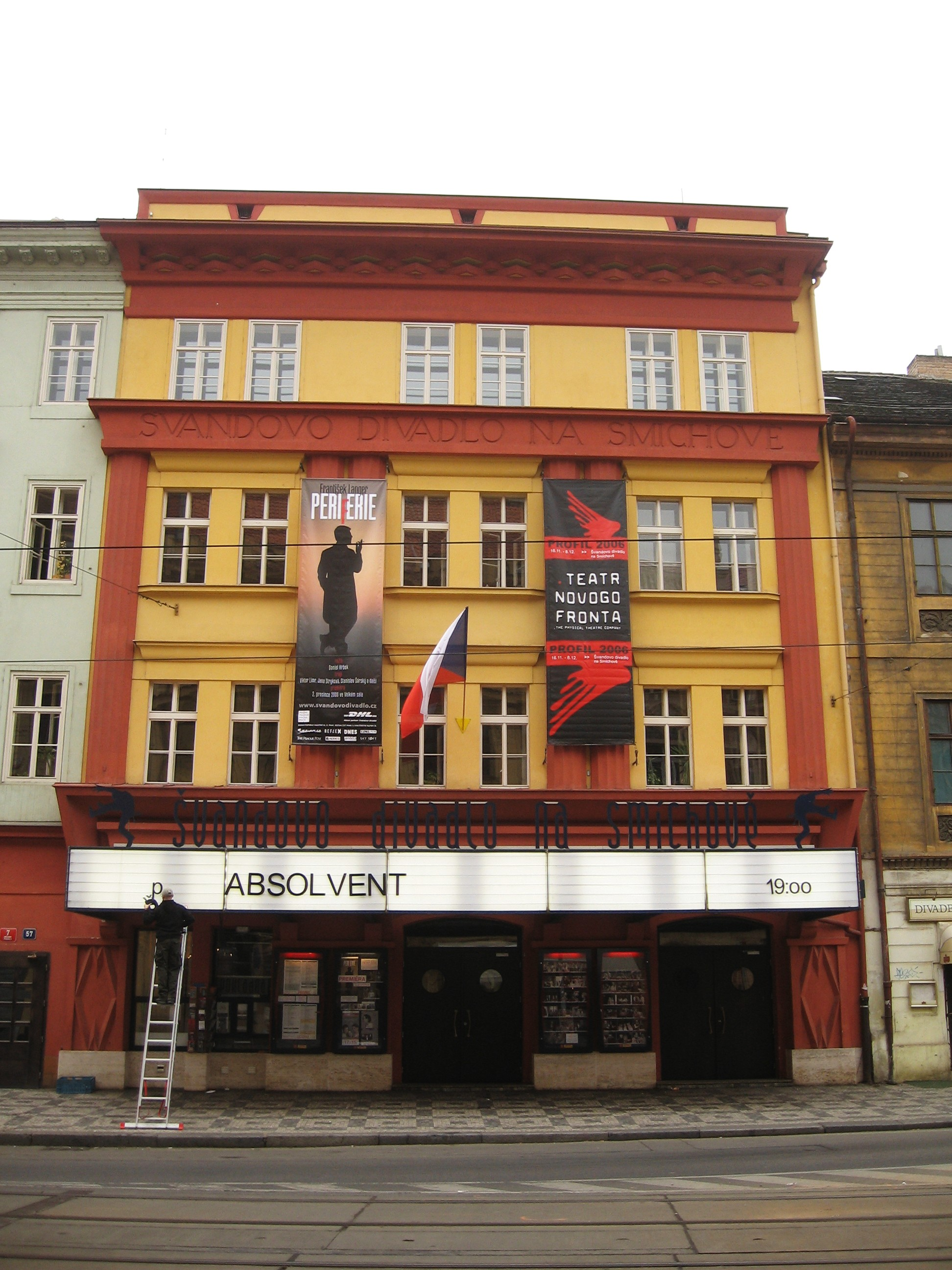 Prague, Czech Republic. Švandovo divadlo theatre, Štefánikova street..